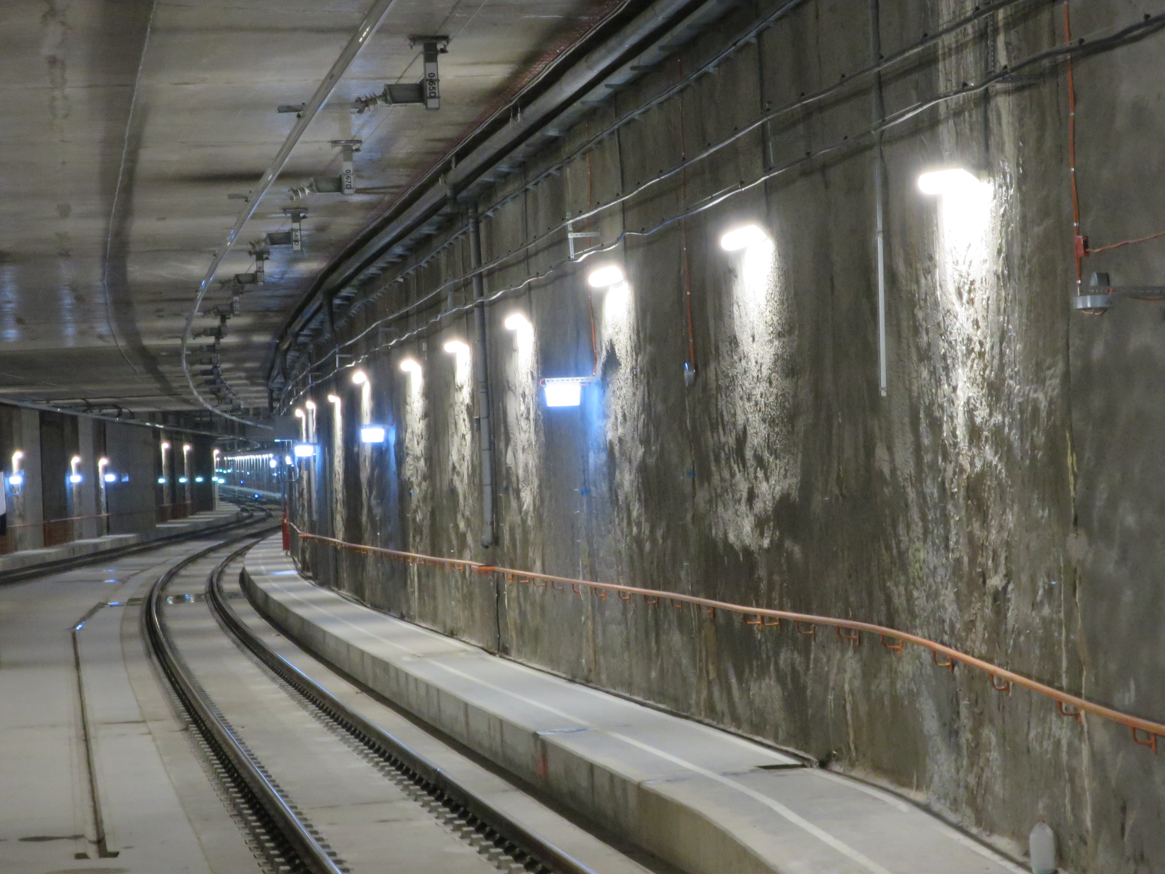 The making of this document was supported by Wikimedia Polska Association, within Wikigrant no. WG 2016-56. Łódź Fabryczna - tunel